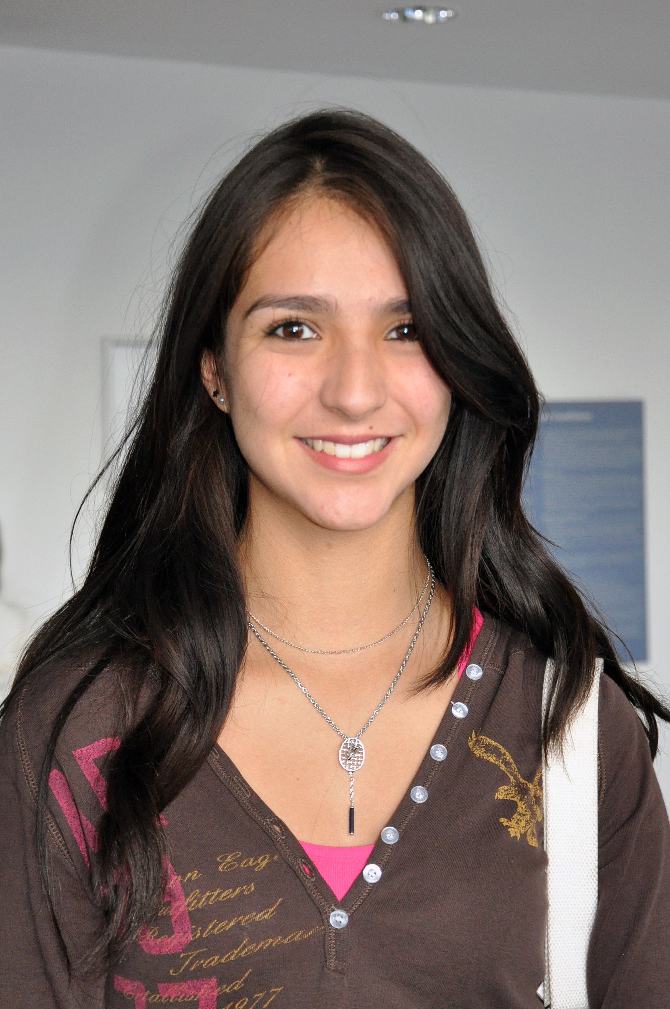 Mexico's Cynthia Gonzalez wearing a Vinqui Resting Birdie Pendant.